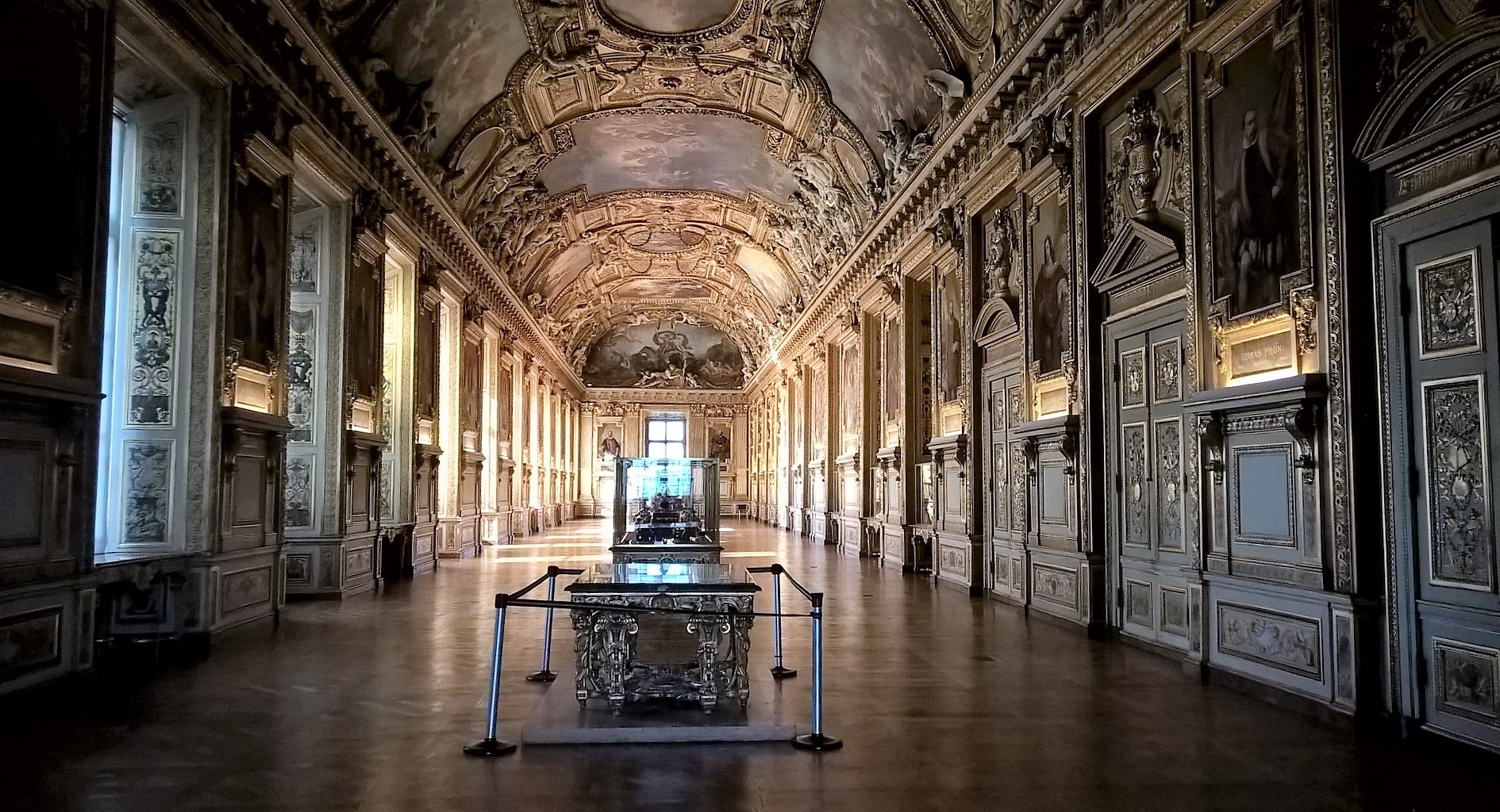 Deserted galerie d'Apollon in Louvre museum (Paris, France).